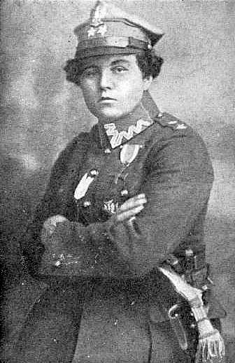 Leopoldyna Stawecka in officer uniform of the Polish Army.